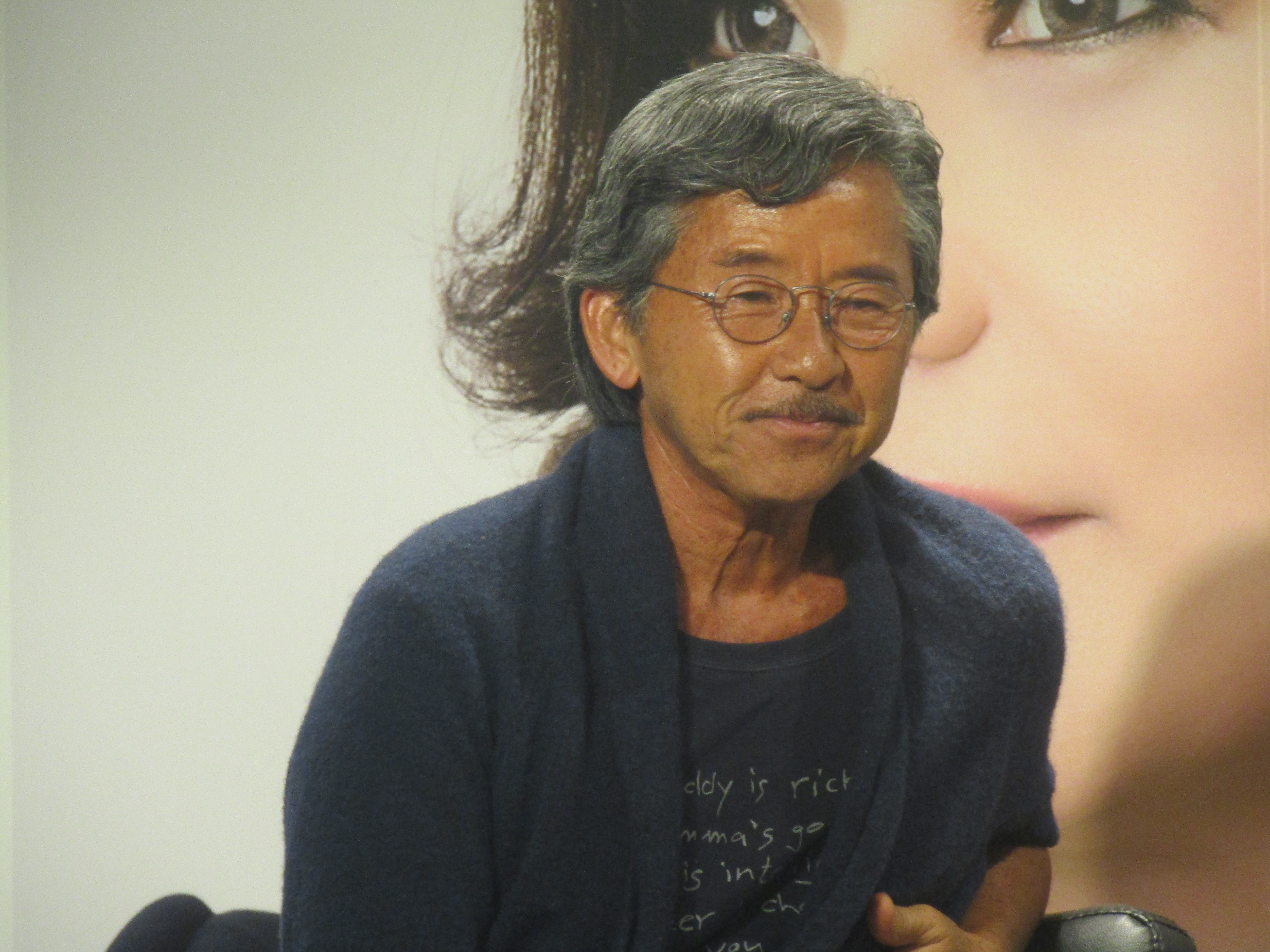 George Lam attended the event in Houston Centre